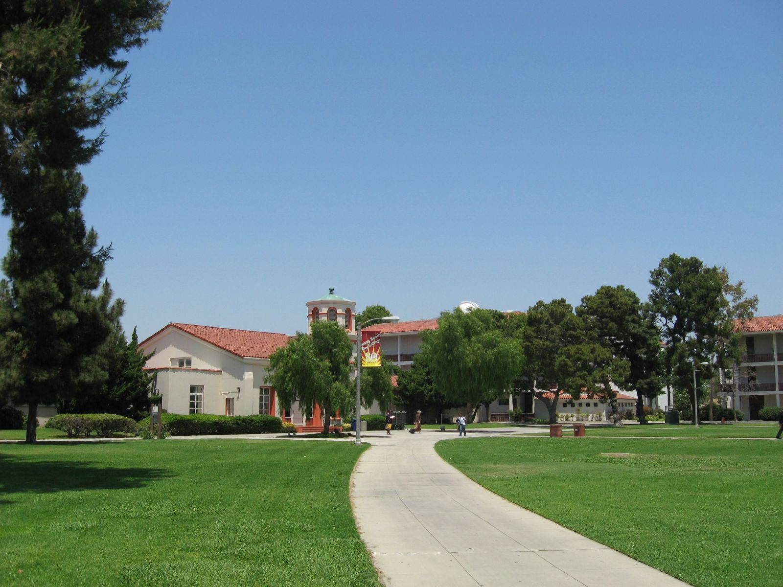 Administration building on Carson St, Long Beach, California.